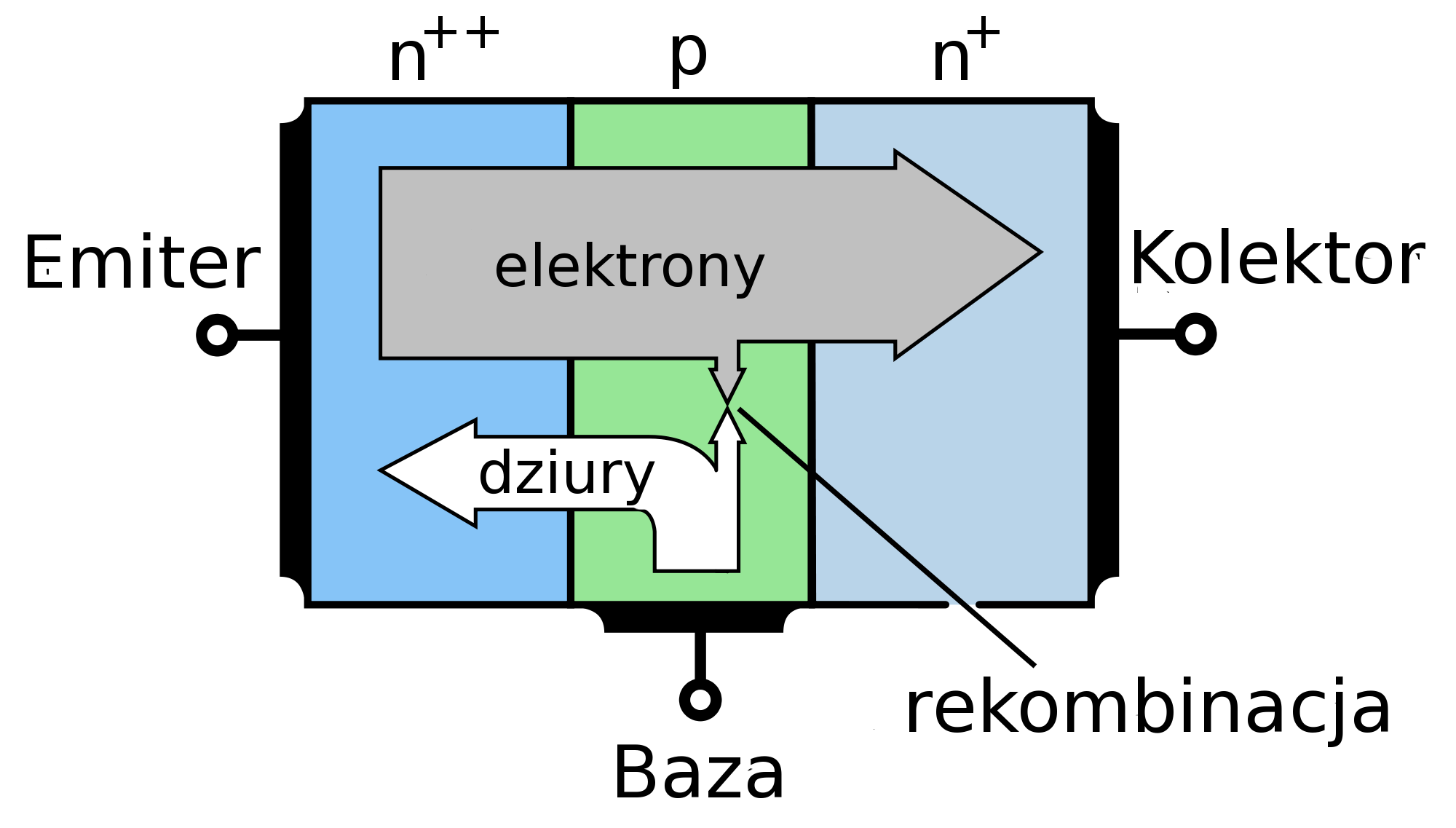 Basic operation of a NPN type bipolar junction transistor.